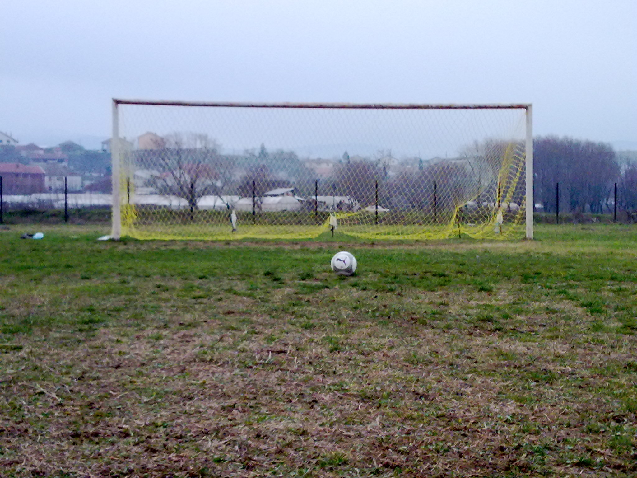 Bogorodica Stadium in winter 2009